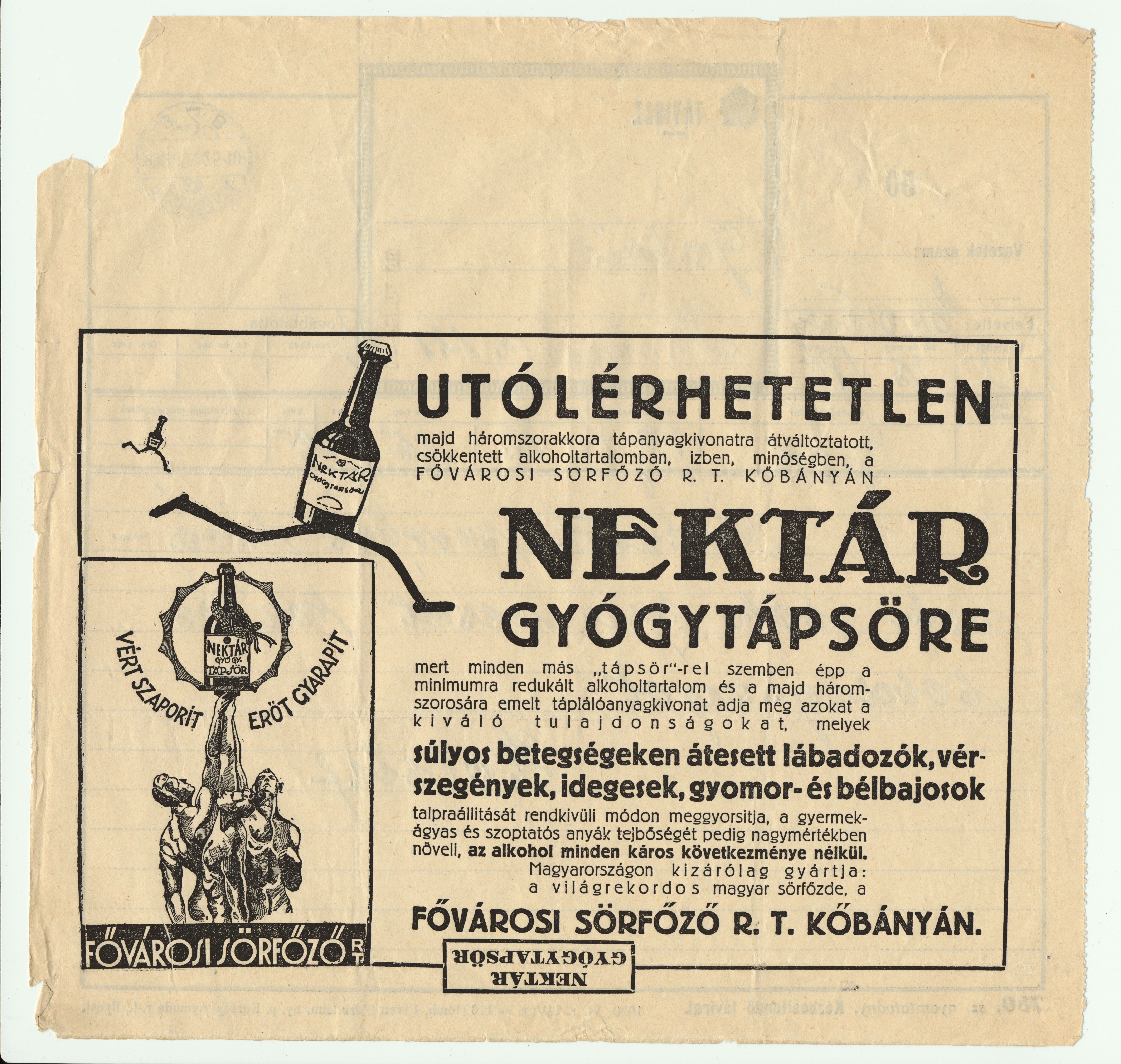 1932 06 25 Hungary telegraph - Rakospalota back page Nectar beer ads